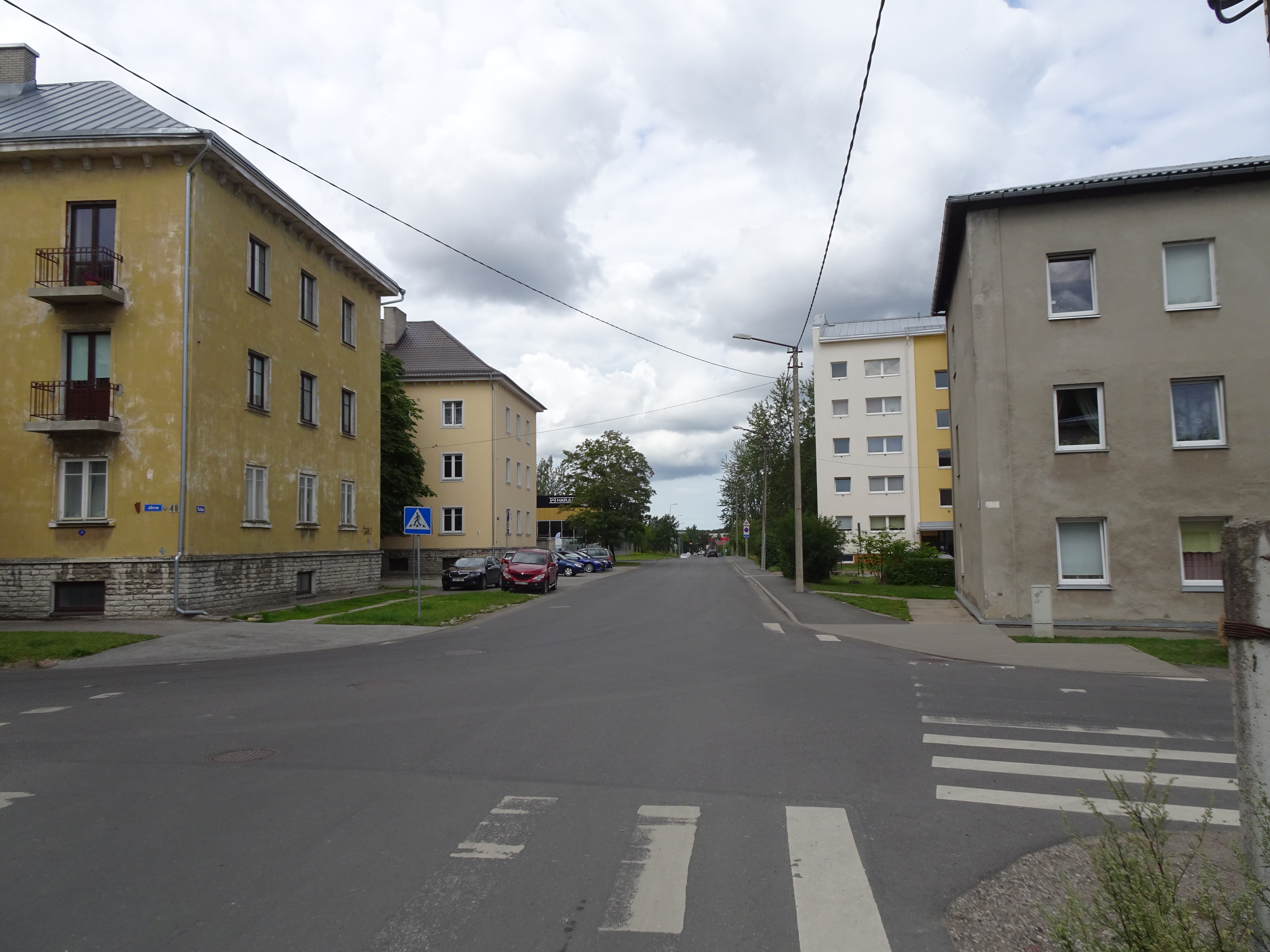 Tuisu Street in Tallinn, Estonia